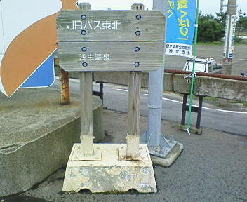 Wooden bus pole for JR Bus Tohoku Asamushi Onsen Bus Stop in Aomori City, Aomori Prefecture, Japan